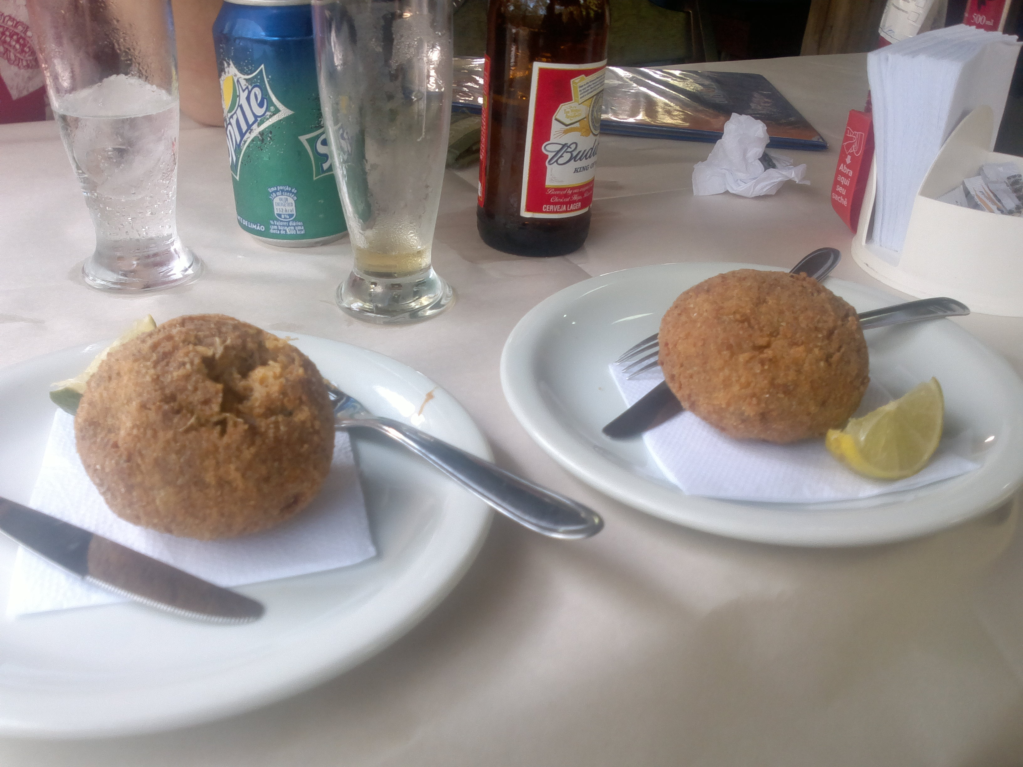 Siri.Smoked.Flesh.Crab.1